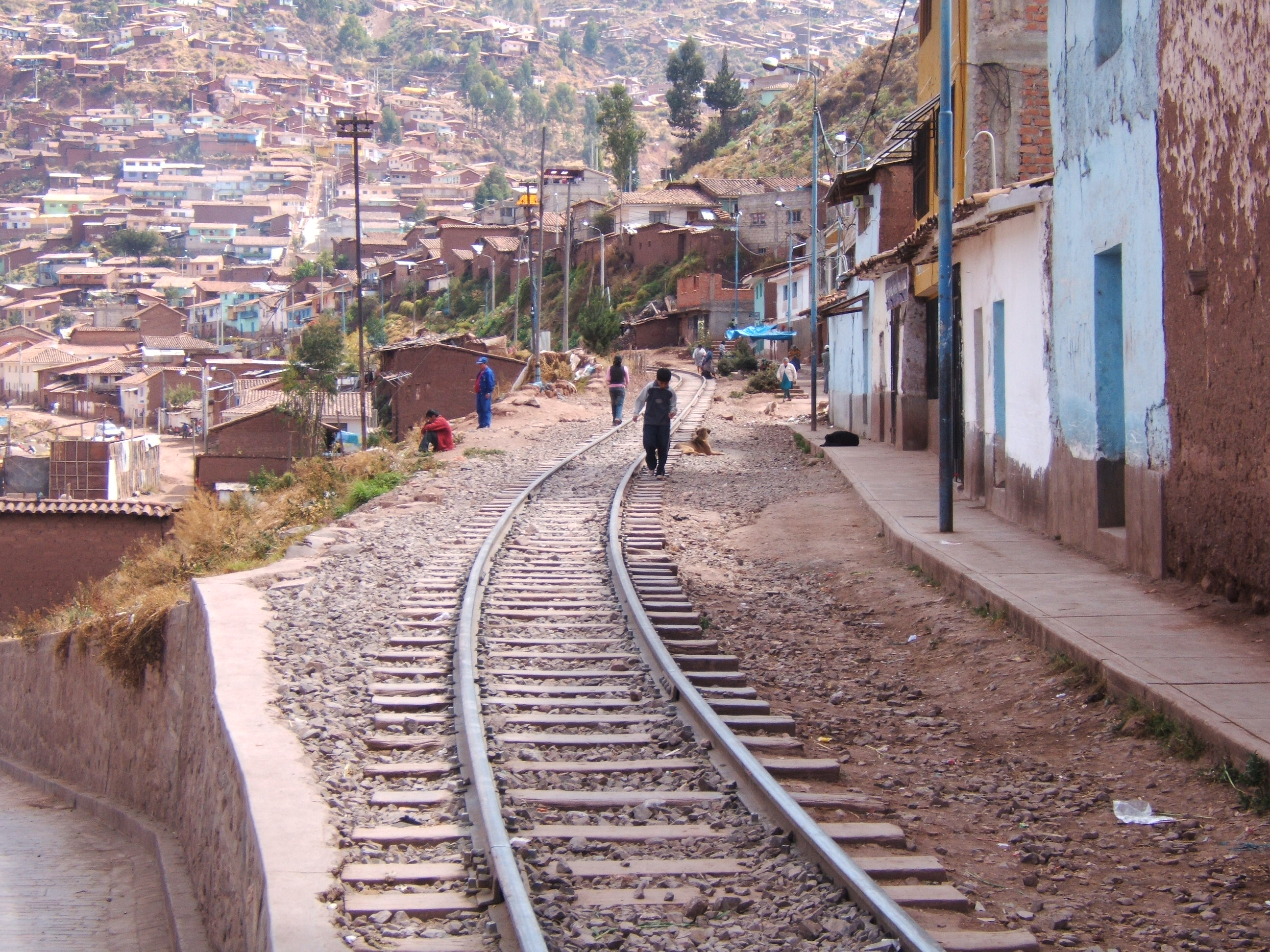 Typical track off the Machu Picchu railway in Cusco suburbs. Taken from the railway crossing at Almudena Bridge, the first road crossing from San Pedro station.